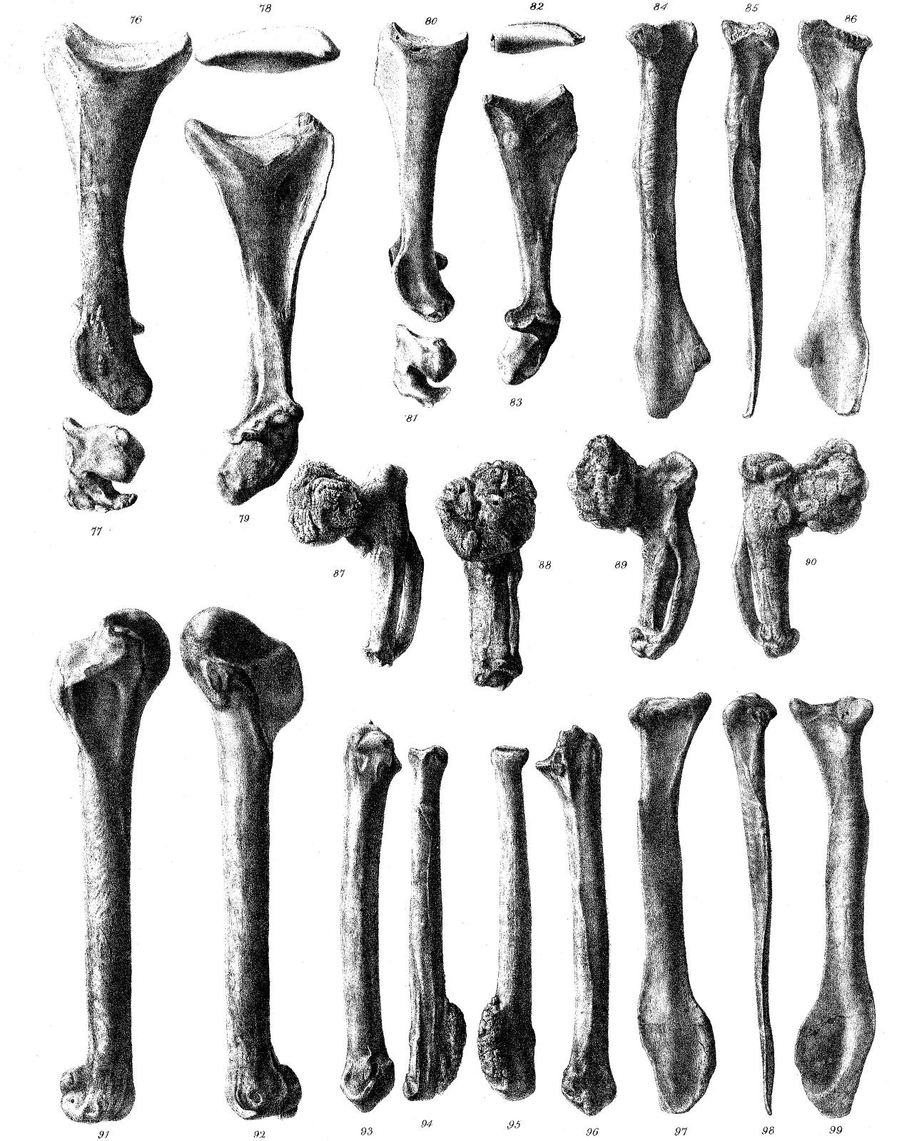 Pezophaps wing bones; Figs. 76-79. Left coracoid, from below, front, behind and above. Figs. 80-83. Left coracoid, from below, front, behind and above. Figs. 84-86. Left scapula, outer, lateral and inner surfaces. Fig. 87. Left metacarpal, upper view. Figs. 88-90. Right metacarpal, front, lower and upper views. Figs. 91, 92. Eight humerus, lower and upper views. Fig. 93. Eight ulna, upper view. Figs. 94, 95. Eight radius, upper and lower views. Fig. 96. Eight ulna, lower view. (From same specimen as fig. 93.^ Figs. 97-99. Eight scapula, inner, lateral and outer surfaces.